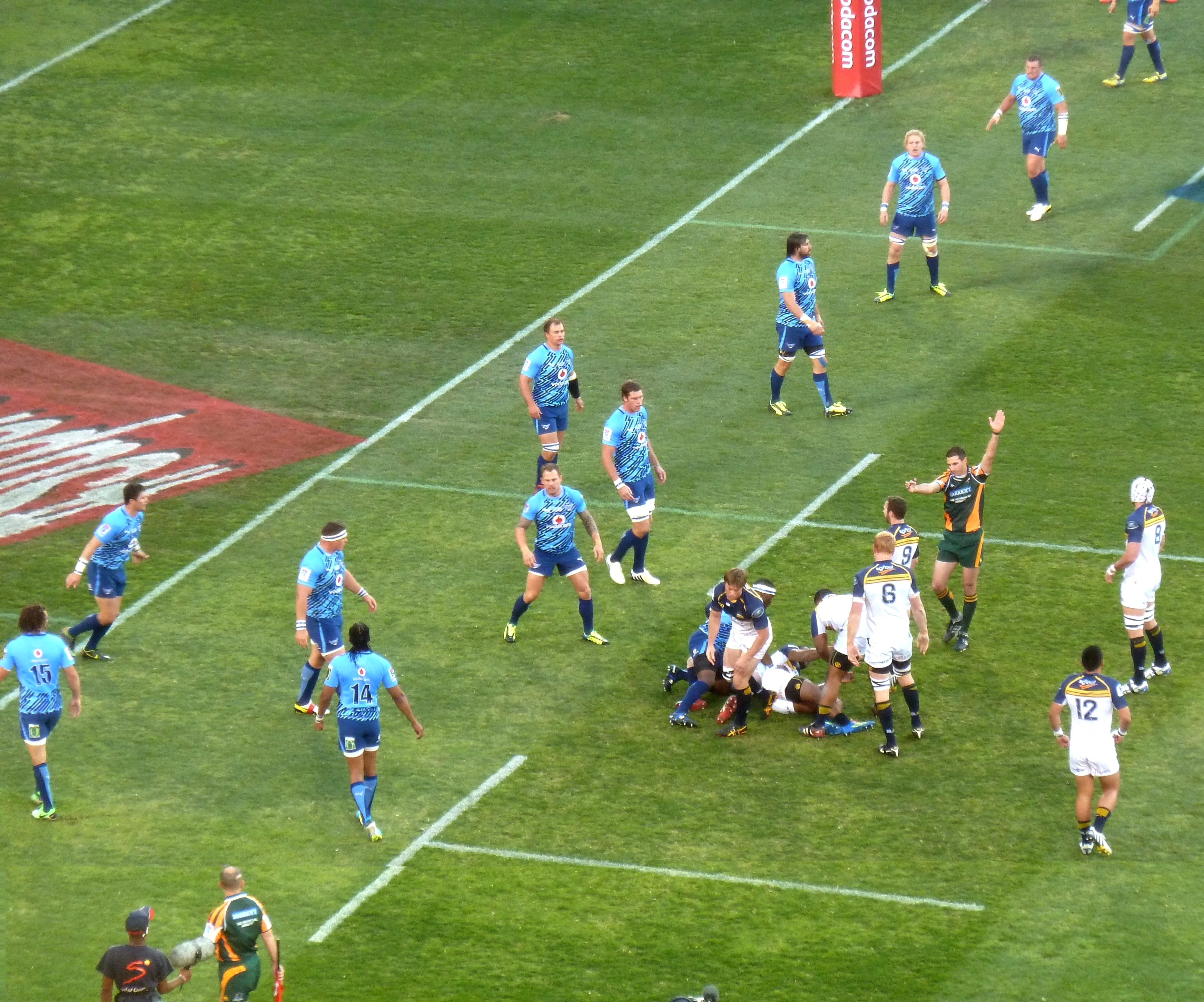 Bulls vs Brumbies, with Brumbies in the lead during the 2013 Super Rugby semi-final at Loftus, Pretoria, which the Brumbies would win 26:23. The Bulls players in view are Zane Kirchner, Morné Steyn, Werner Kruger, Akona Ndungane, Francois Hougaard, Deon Stegmann, JJ Engelbrecht, Jacques Potgieter, Dewald Potgieter and Dean Greyling, and the referee is Craig Joubert. Brumbies players in view include Peter Kimlin and Nic White.